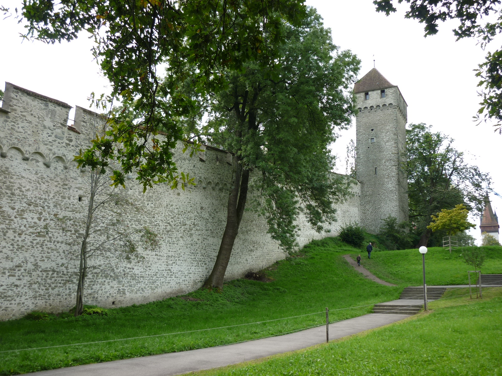 Musegg wall, Lucerne, Switzerland